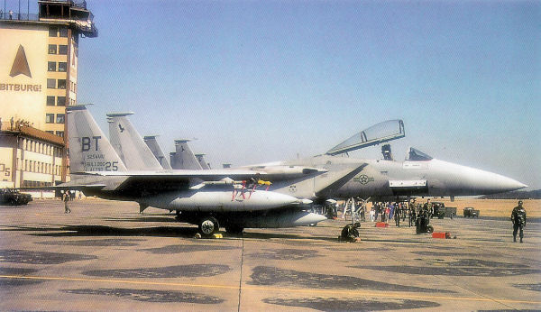 F-15s of the 36th Tactical Fighter Wing returning to their home base at Bitburg Air Base, Germany, after taking part in Operation Desert Storm, April 1991